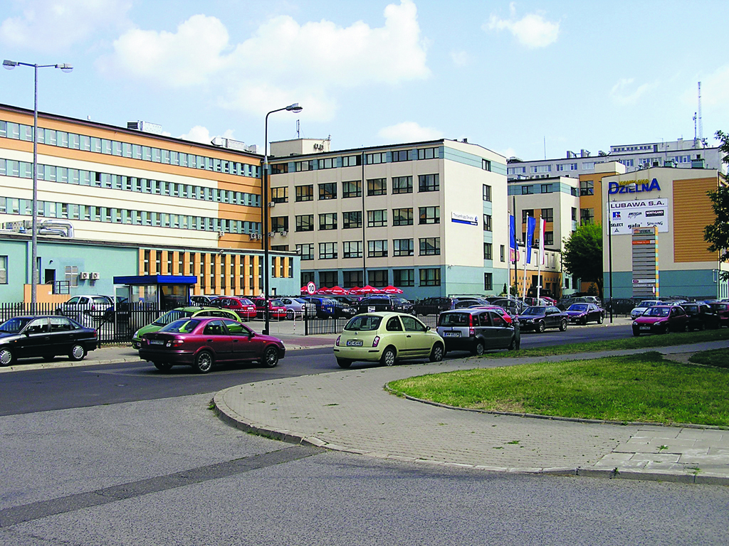 Budynek WSTI